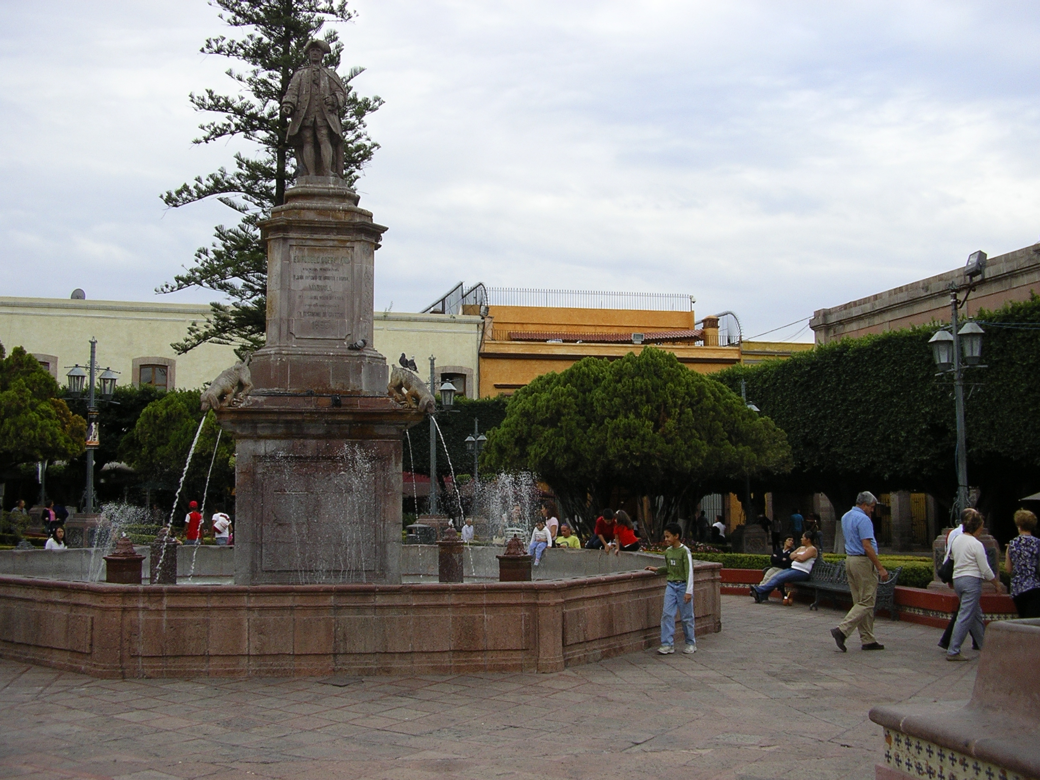 Plaza de Armas, with fountain and statue— in the Centro Histórico of Santiago de Querétaro. In the Municipality of Querétaro, Querétaro state, México.